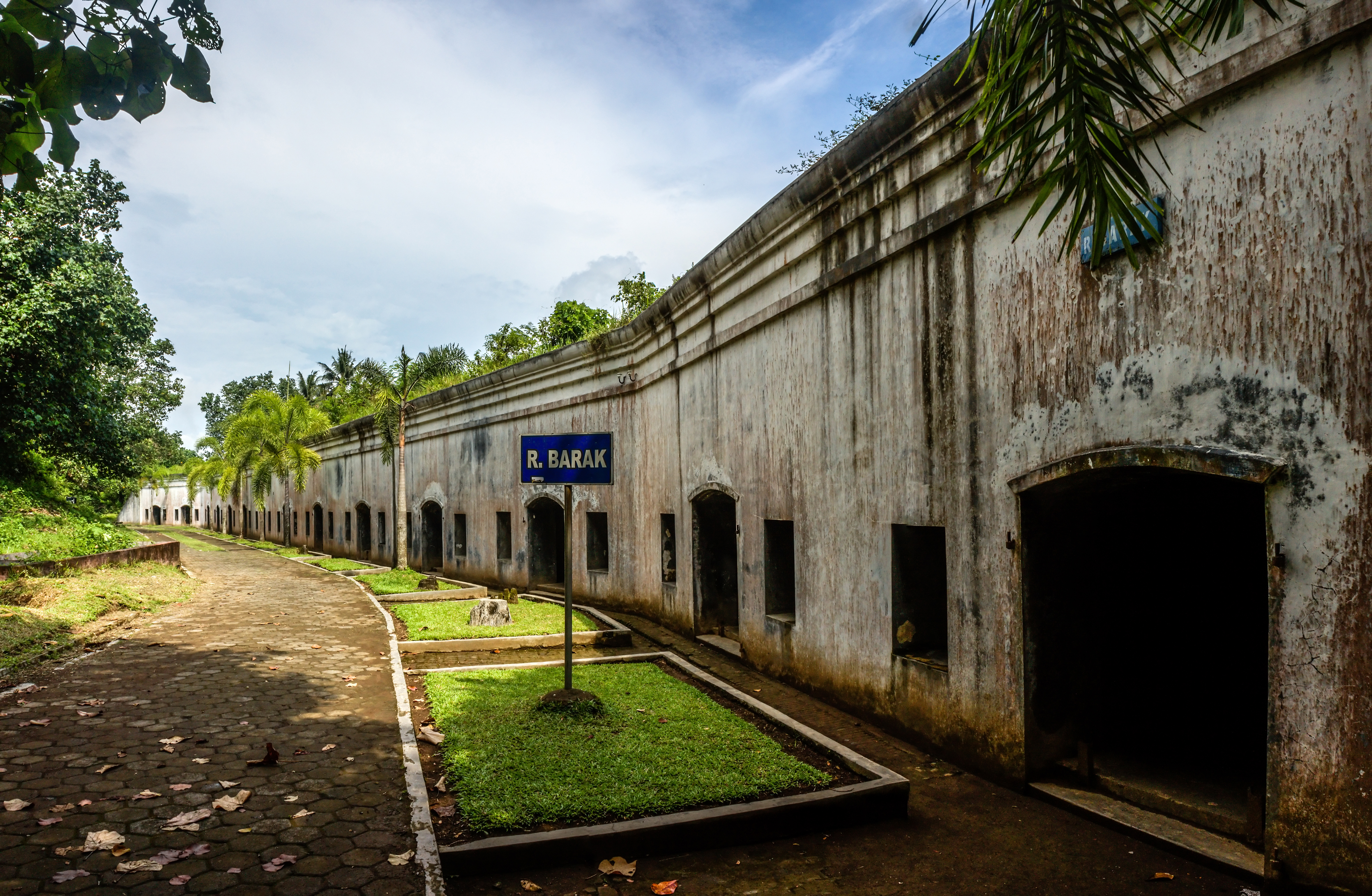 Barracks, Benteng Pendem, Cilacap 2015-03-21